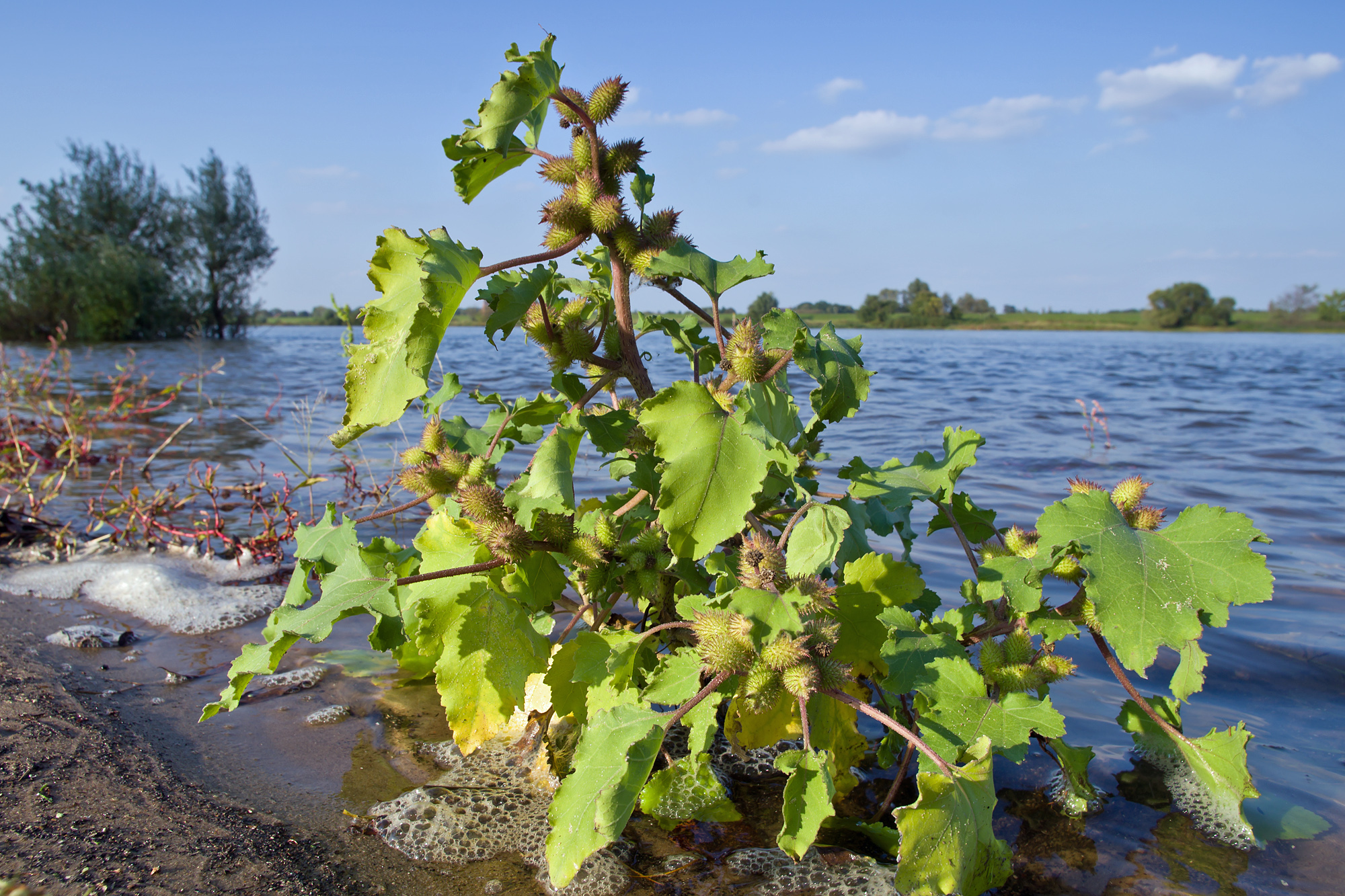 Plant from Xanthium albinum ssp. albinum, growing at the river banks of the Elbe. This subspecies has been developed in Europe; its next relatives are from North America.